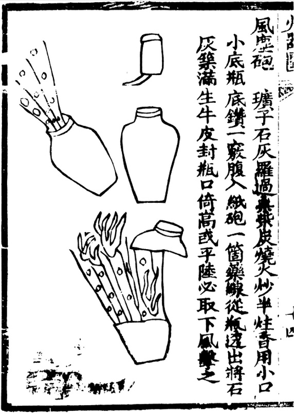 Depiction of a wind-and-dust bomb from the Ming Dynasty book Huo Long Jing